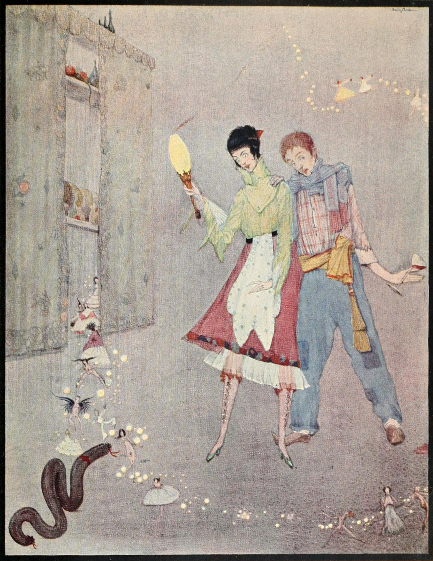 Illustration in The fairy tales of Charles Perrault Perrault, Charles, 1628-1703; Clarke, Harry, 1889-1931, illustrator. London: Harrap (1922)